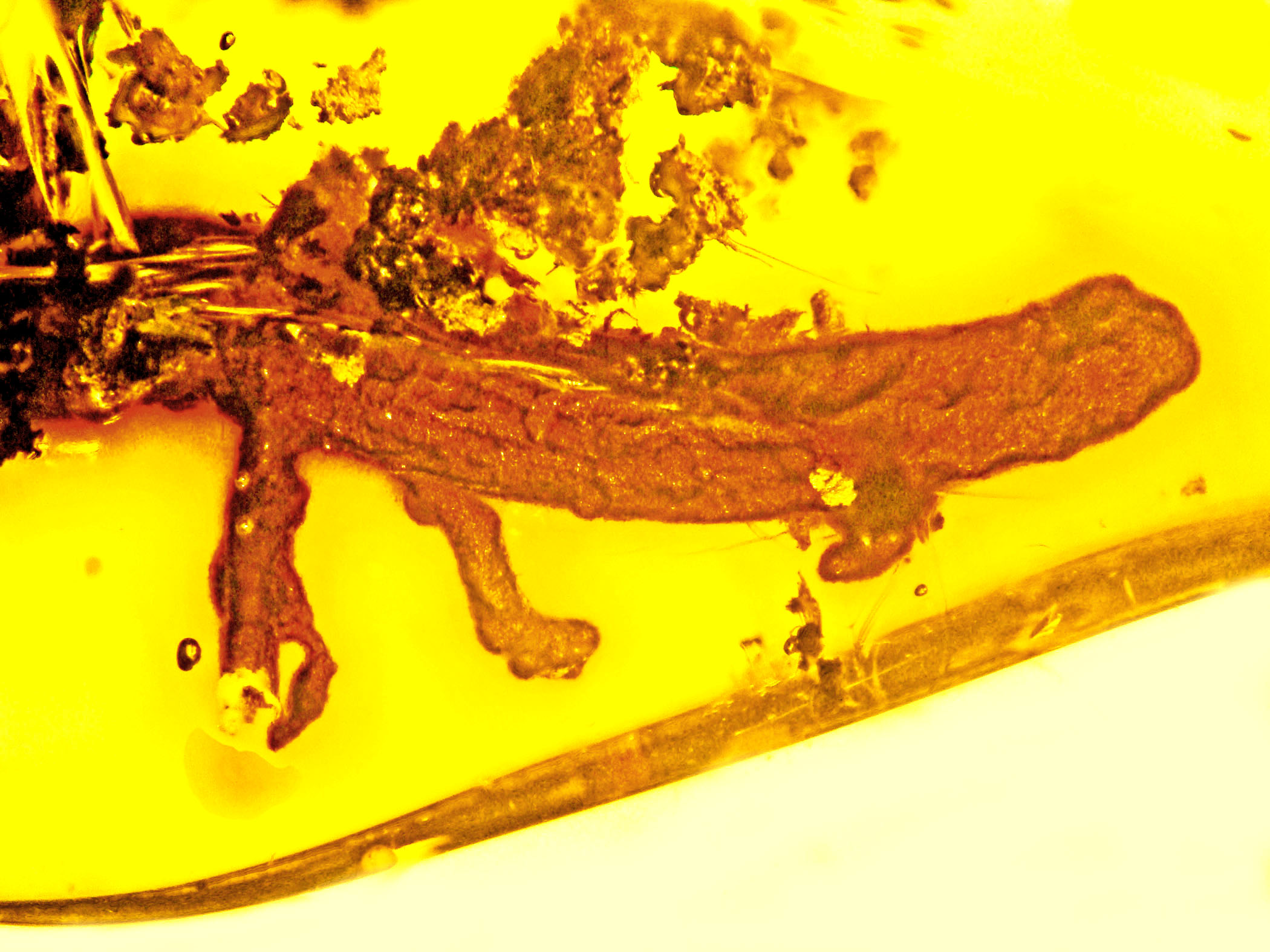 This is the only salamander (Palaeoplethodon hispaniolae) fossil ever discovered that was preserved in amber, and it was found in an unlikely place - the Dominican Republic, where no salamanders survive today. Note the leg and foot, in lower center of image, that lacks normal toes. (Photo by George Poinar, Jr., courtesy of Oregon State University)